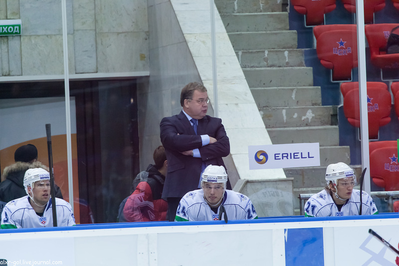 Amur Khabarovsk bench during KHL-game against CSKA in Moscow, on November 2, 2012. Head coach Hannu Jortikka, players (LTR) Alexander Buturlin, Igor Ozhiganov, Dmitri Lugin.